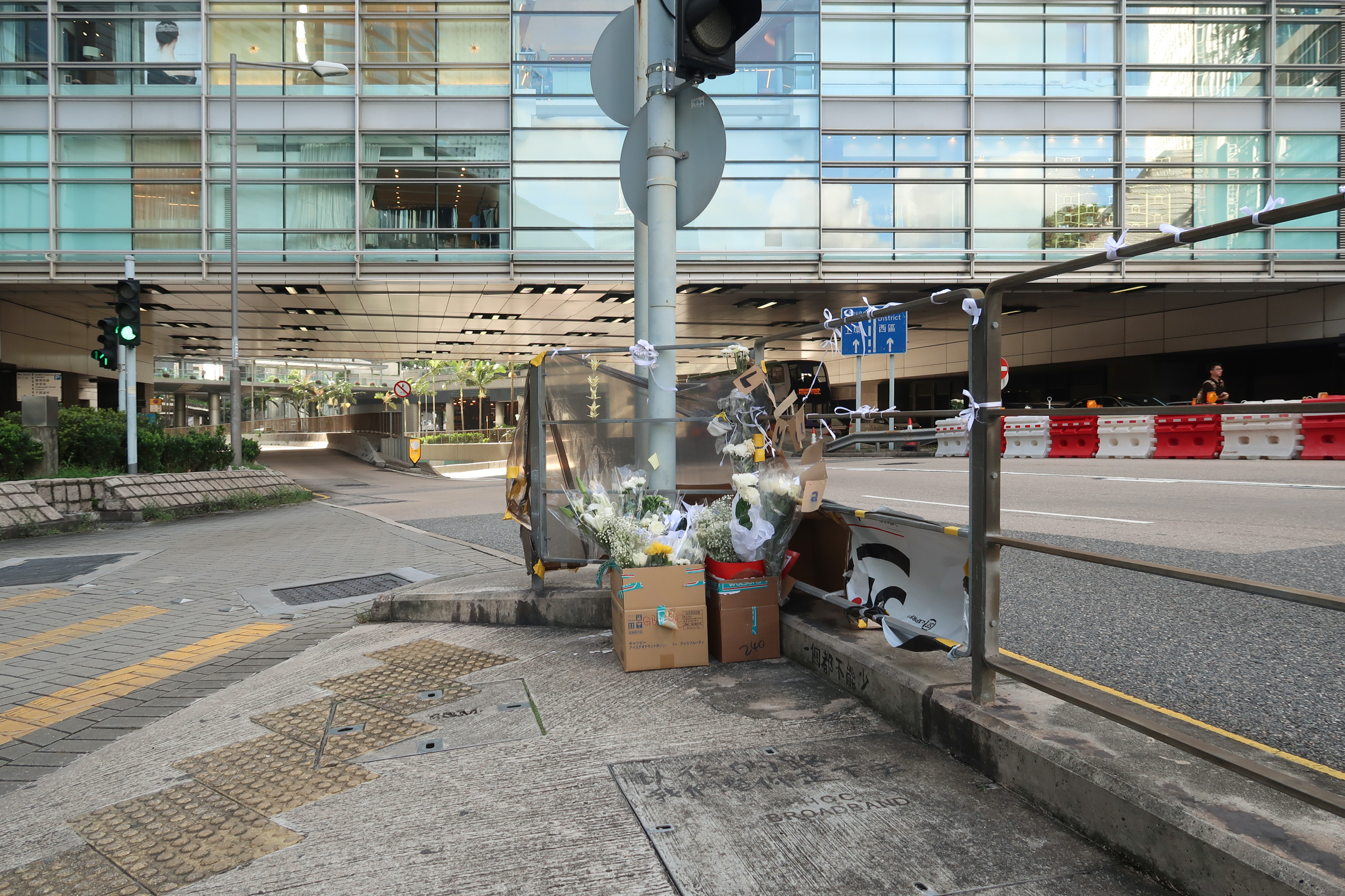 Memorial for Zhita in Man Cheung Street